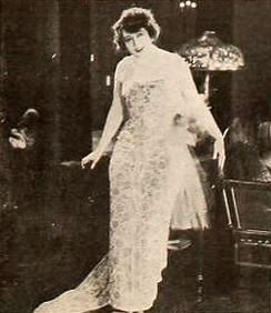 Still of Madlaine Traverse in the American film The Tattlers (1920), page 3493 of the April 17, 1920 Motion Picture News.